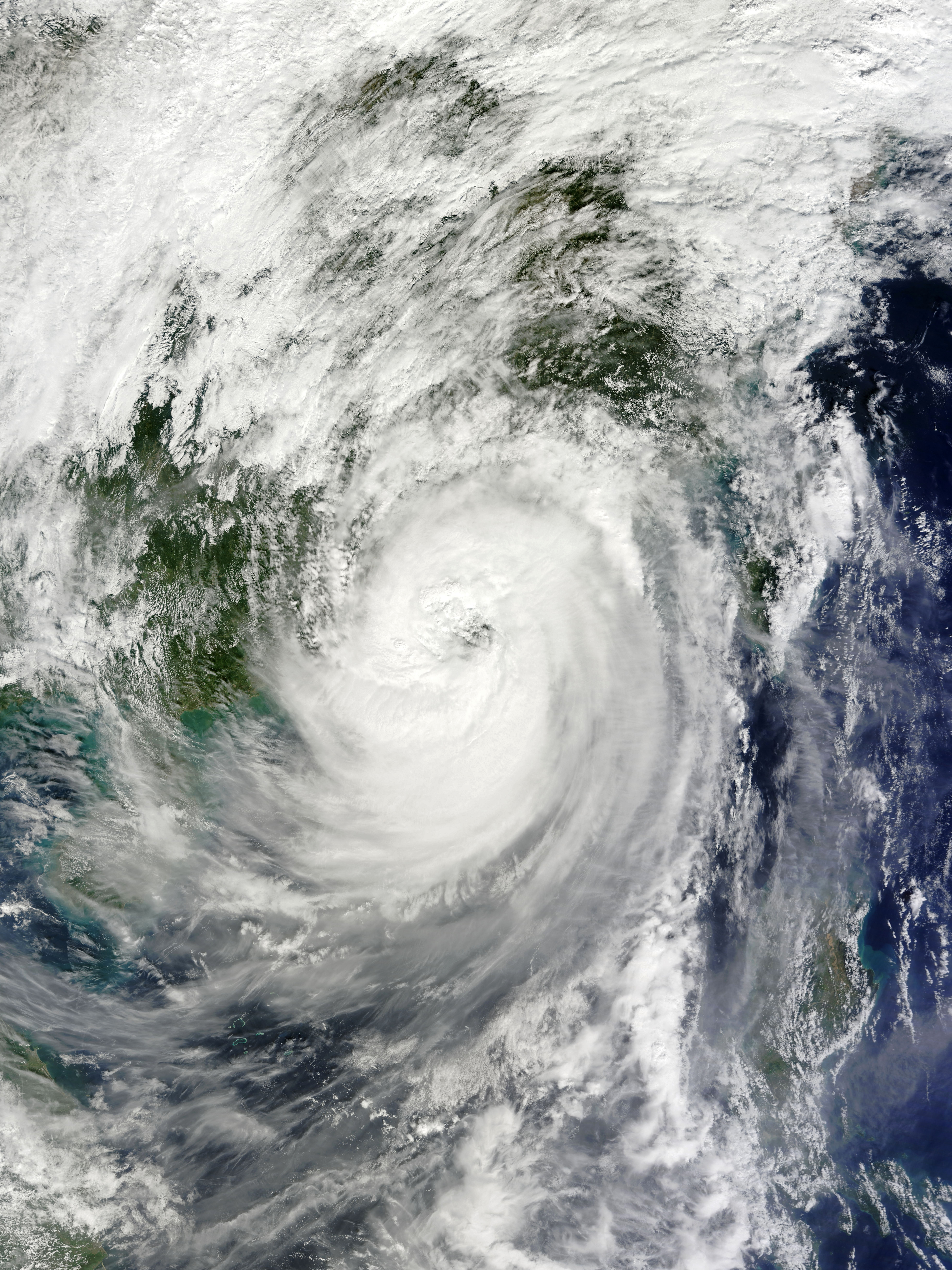 Typhoon Haima making landfall over Guangdong, China on October 21, 2016.